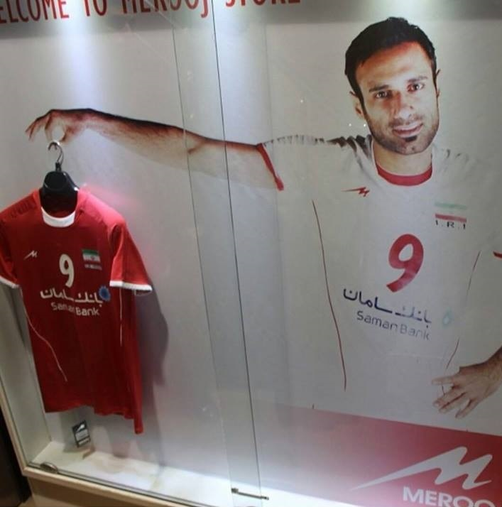 Merooj sponsors Adel Gholami and some other players in volleyball and football